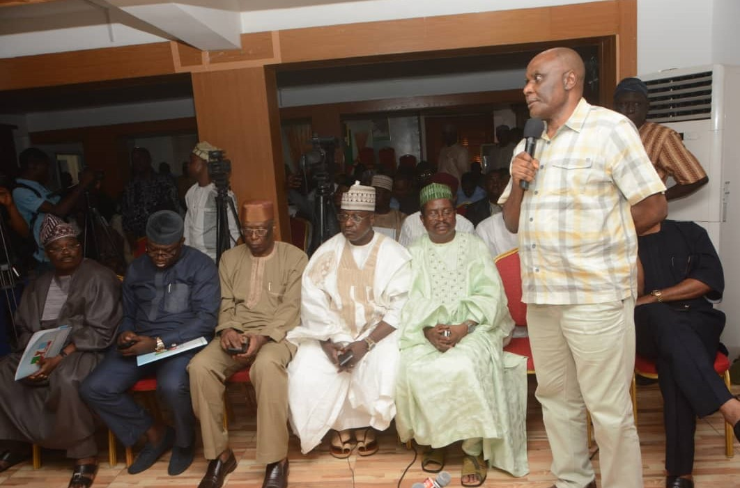 L-R: Senator Abiola Ajimobi, Dr.Kayode Fayemi, Senator Oserheimen Osunbor, Ahmed Gulak, Senator Ocheja, Chief Clement Ebri, Ademola Rasaq Seriki, Pius Odubu, and Major General Lawrence Onoja rtd. being sworn in as chairmen of the APC committees to conduct the gubernatorial primary elections of the party for the 2019 elections across Nigeria.